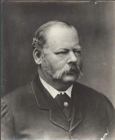 Patrick Jennings. Portrait of Sir Patrick Alfred Jennings, Premier of N.S.W. [picture] . [188-?] 1 photograph : b&w ; 27.9 x 22.9 cm.